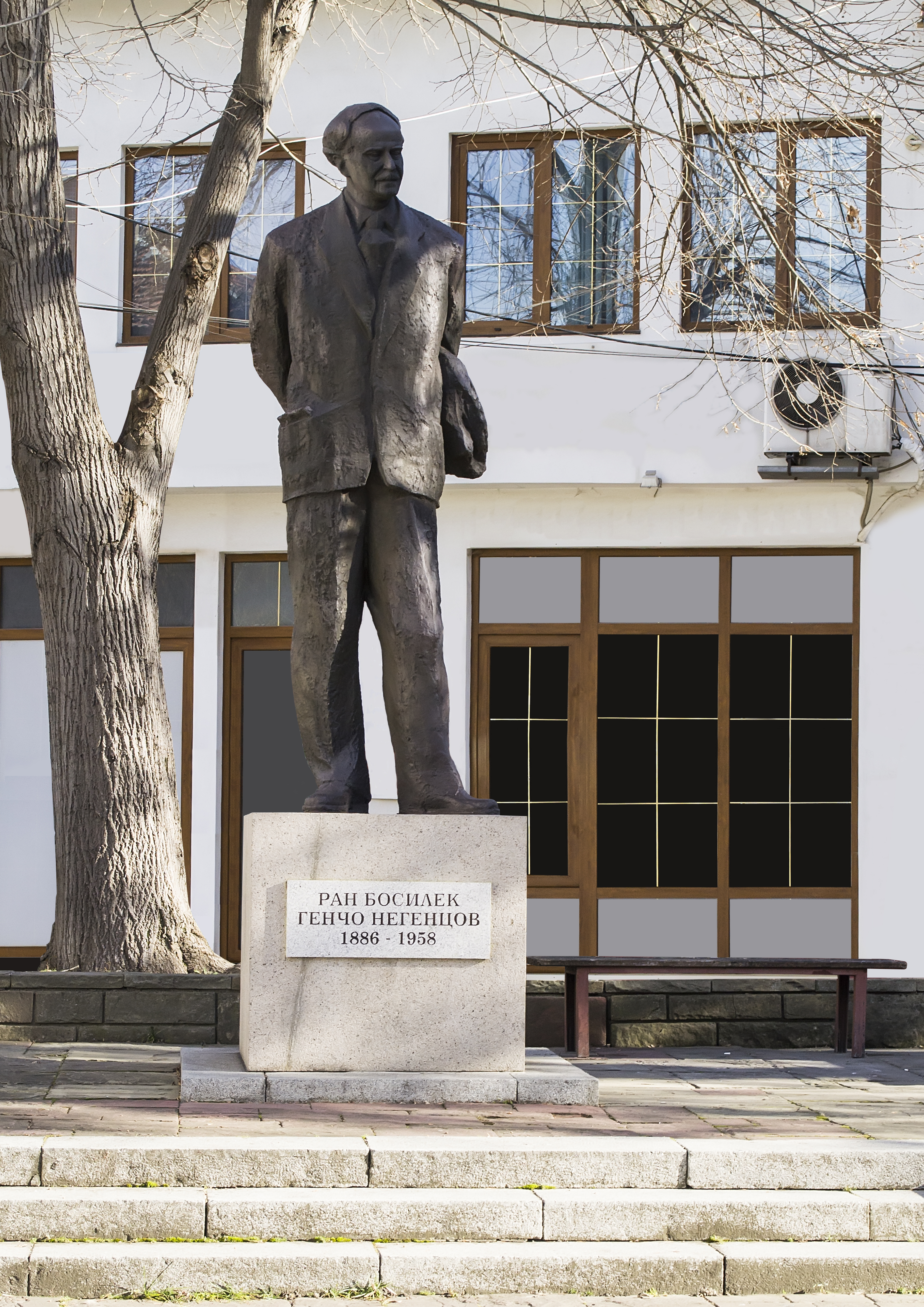 Ran Bosilek